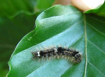 Caterpillar of Eilema sororcula Location: The Netherlands - Veluwezoom - Achterste en Voorste Schaddeveld